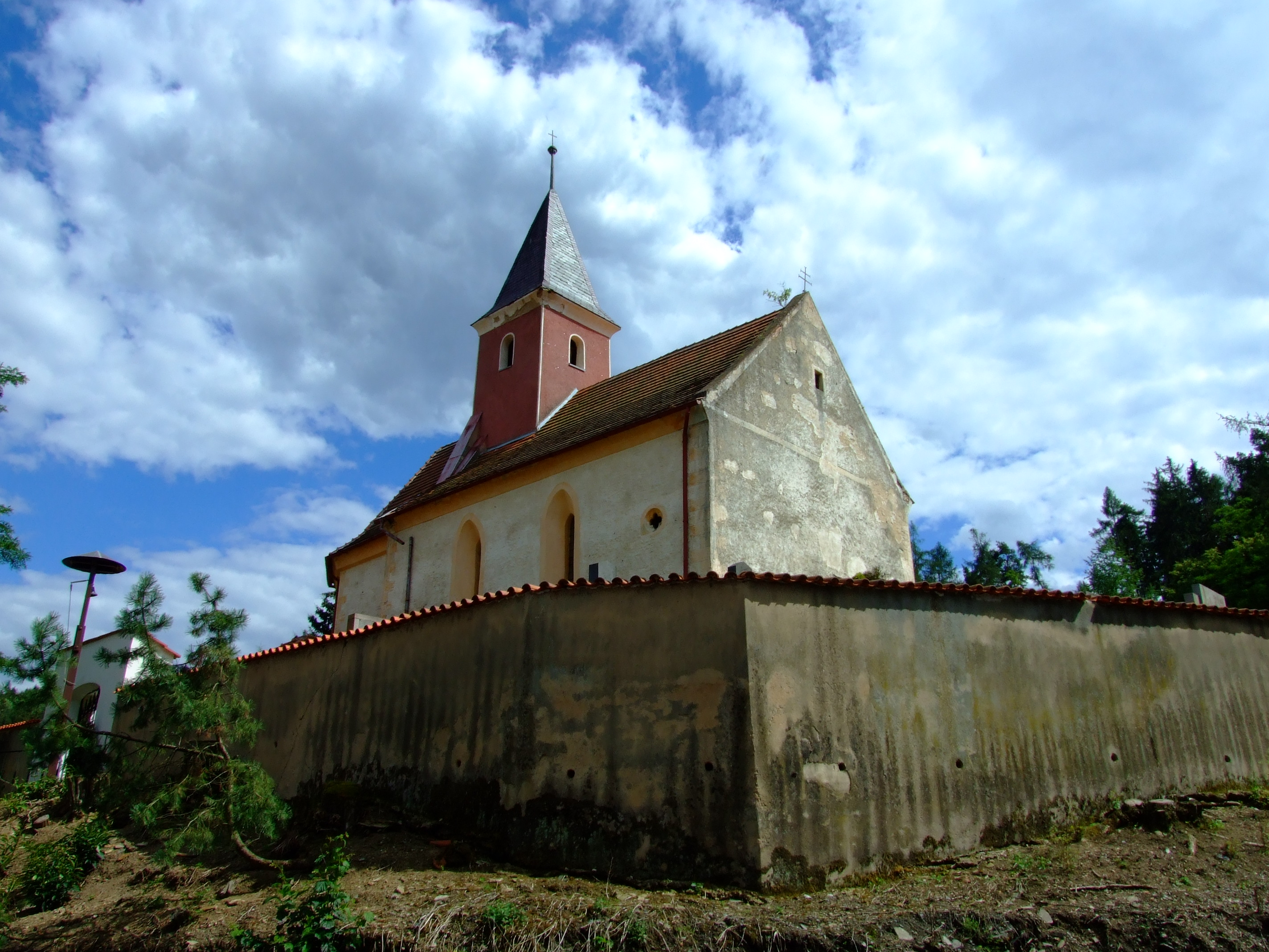 Church of St Giles in Libeř, Prague-West DIstrict, Central Bohemian region, CZhelp